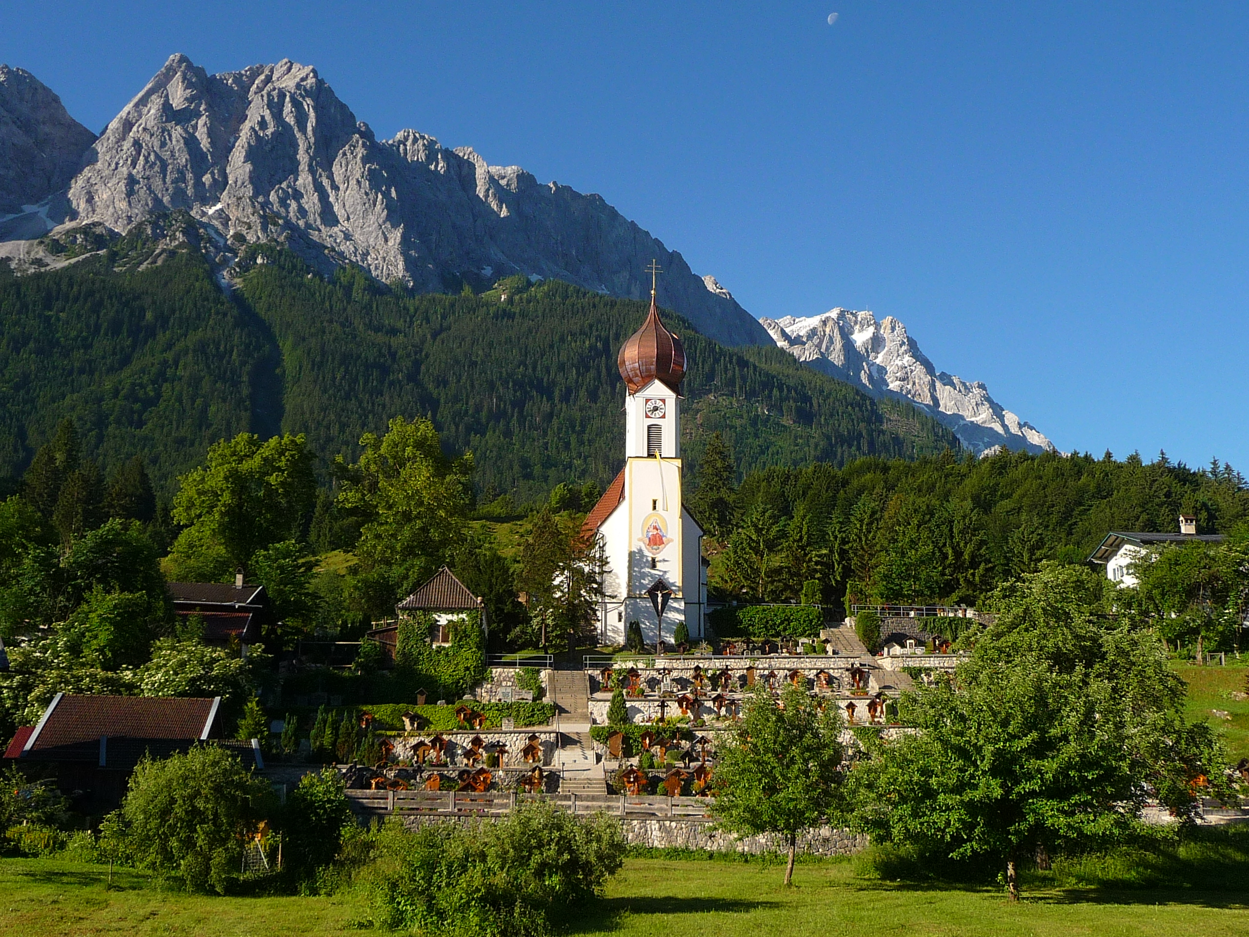 Church in the Bavarian village of Grainau with the mountain Zugspitze in the background